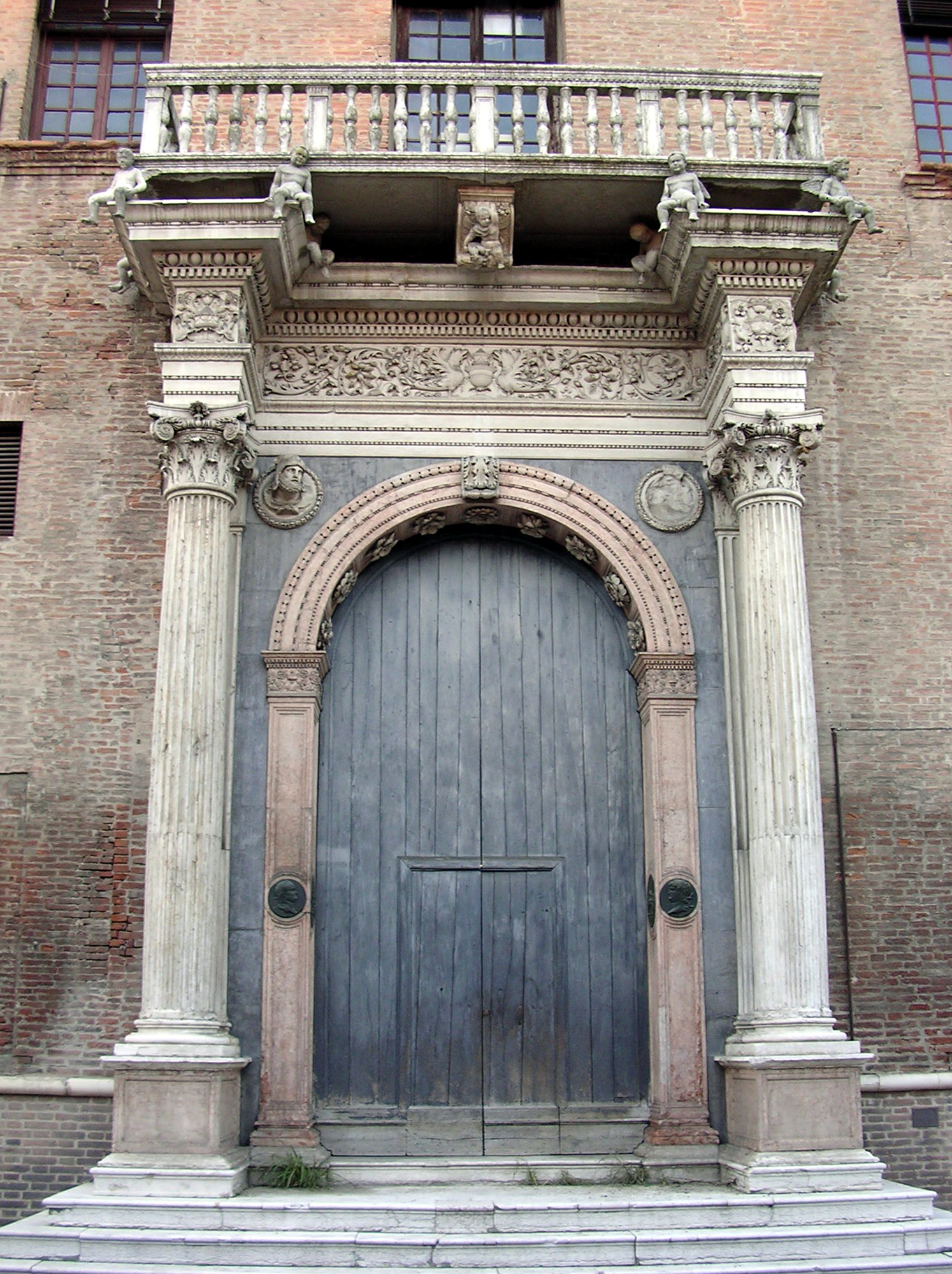 Palazzo Prosperi Sacrati was the first building to be constructed on the Quadrivio of the Addizione Erculea.It was built on the initiative of Francesco da Castello, personal physician of Ercole I, who enthusiastically accepted the duke's project. Works began in 1493 but were still in progress in 1511 when da Castello died. The most remarkable element of the building is however the magnificent marble portal in Venetian style, notable for its high entablature with an ornate frieze, where the putti holding up the balcony are sitting. The Palazzo was severely damaged by the bombardments in 1944 and was partly rebuilt after the war.